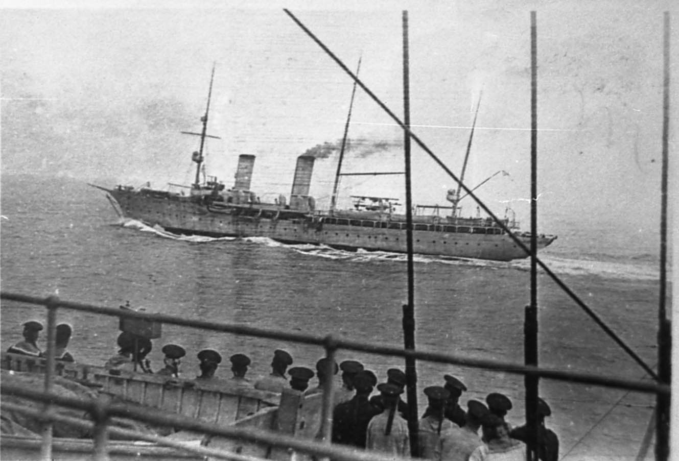 Imperial Russian seaplane carrier Almaz.